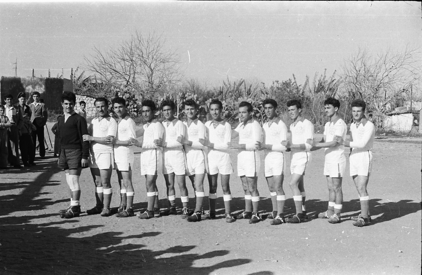 Sports in Israel